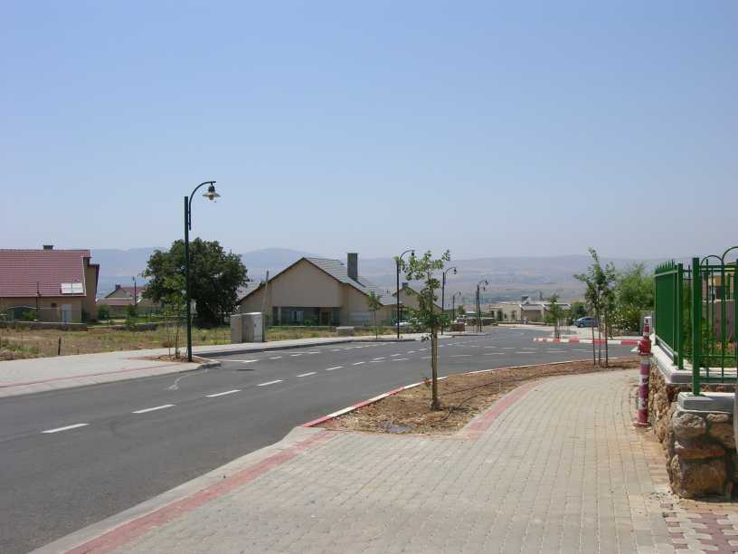 neighborhood in Snir